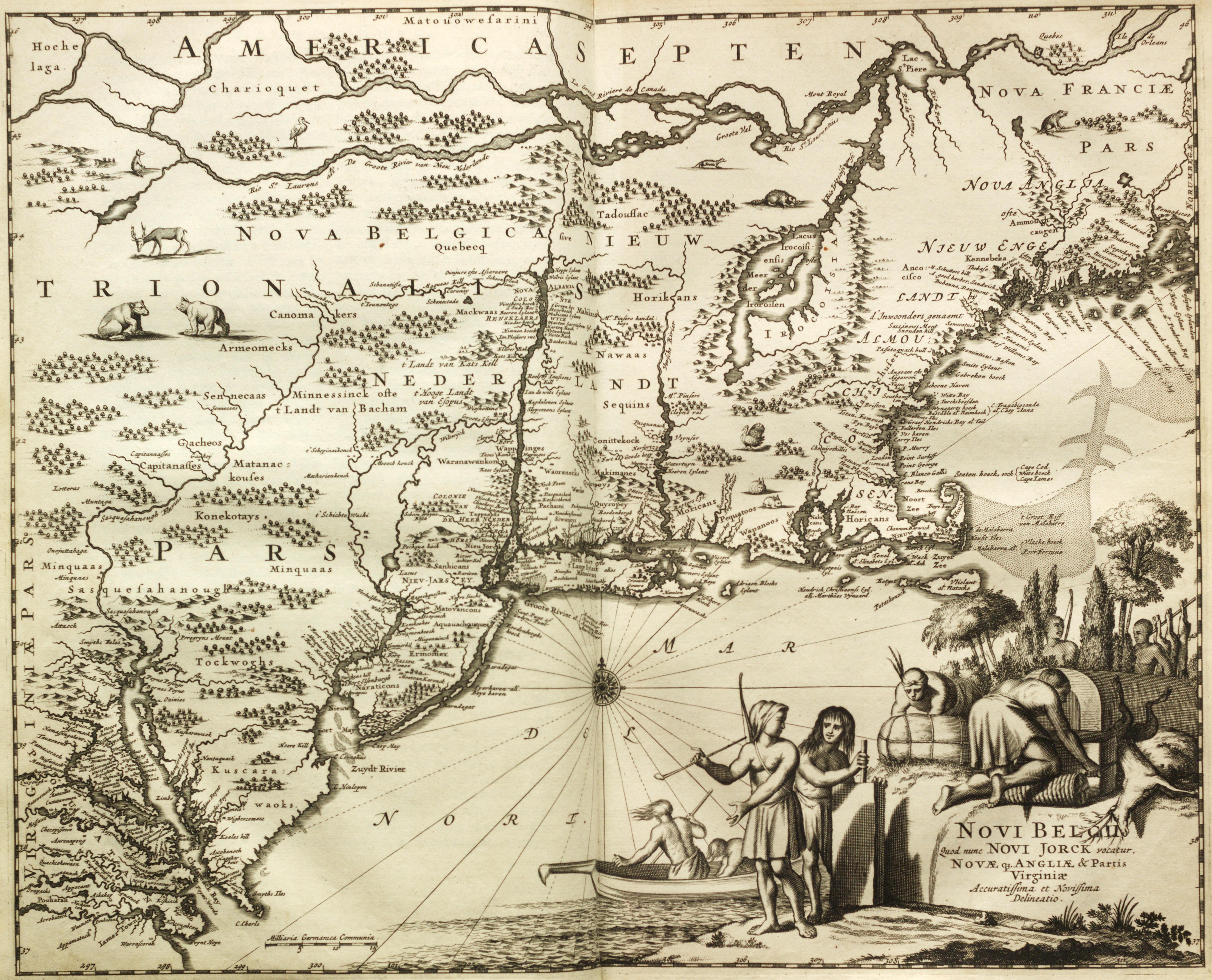 Map of New York, from Montanus.